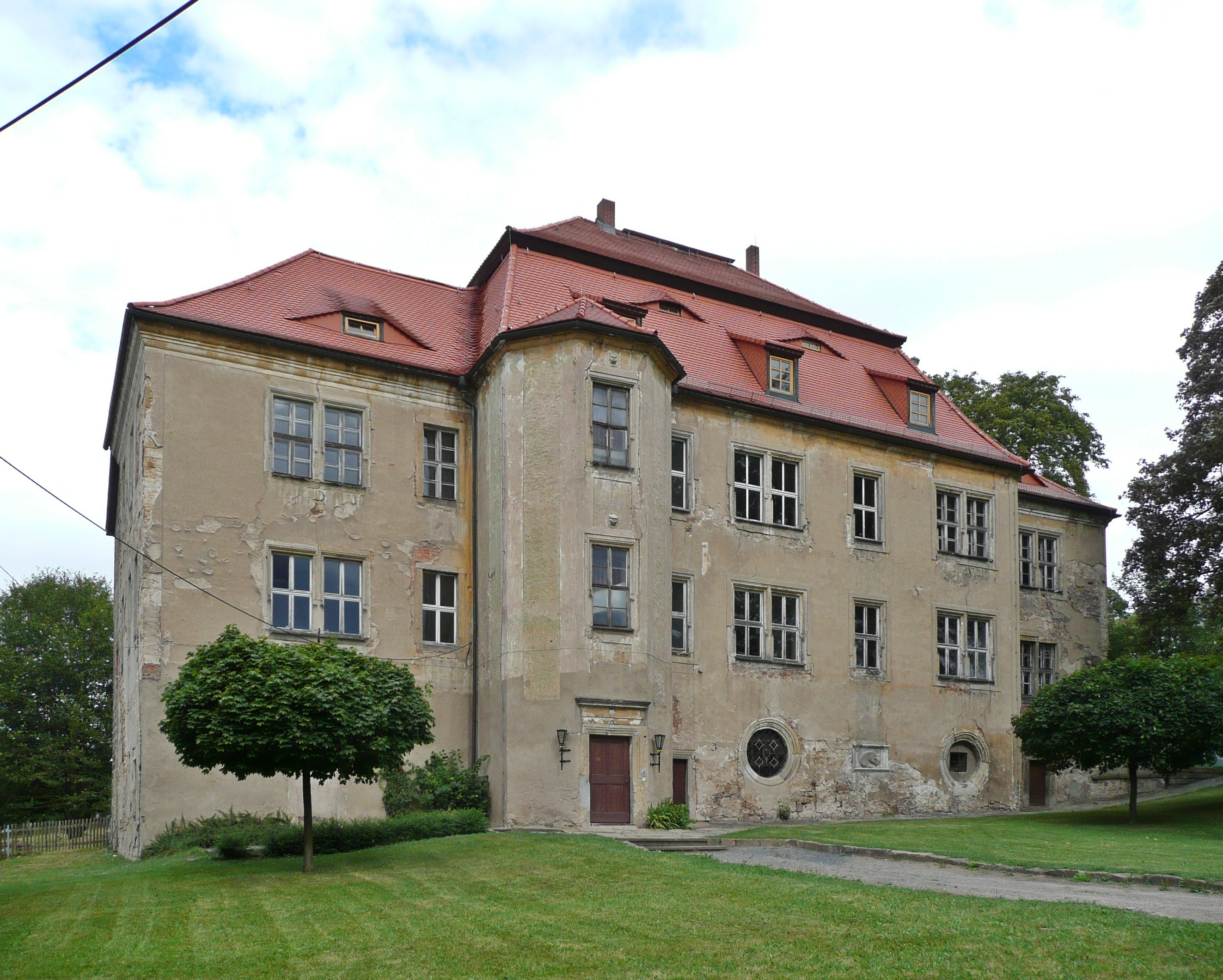 This image shows Kleinstruppen Castle (Schloss Kleinstruppen) in Struppen.